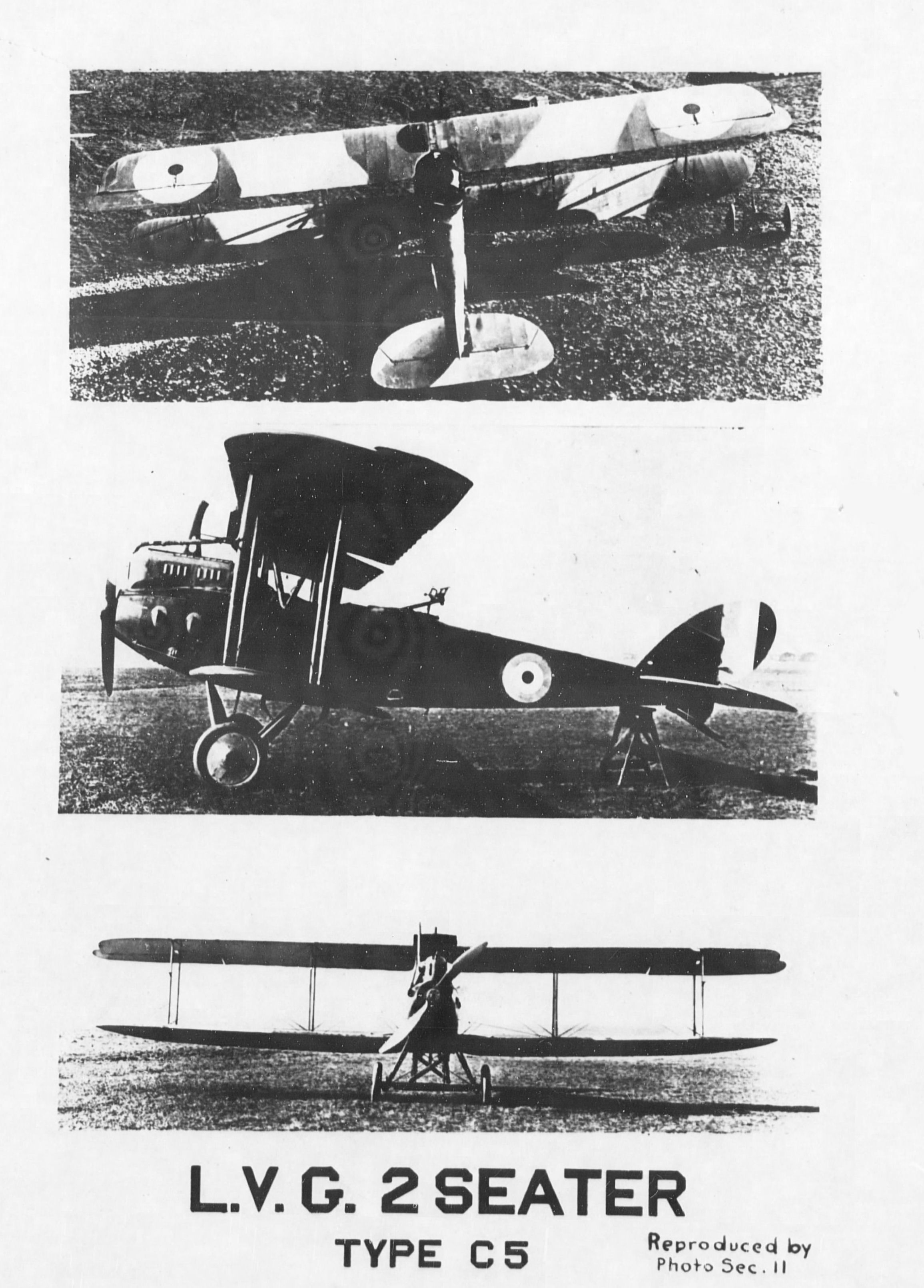 Captured Third Army German LVG C.V, taken at Coblenz Aerodrome, Germany